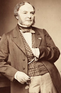 Louis Hachette in 1854